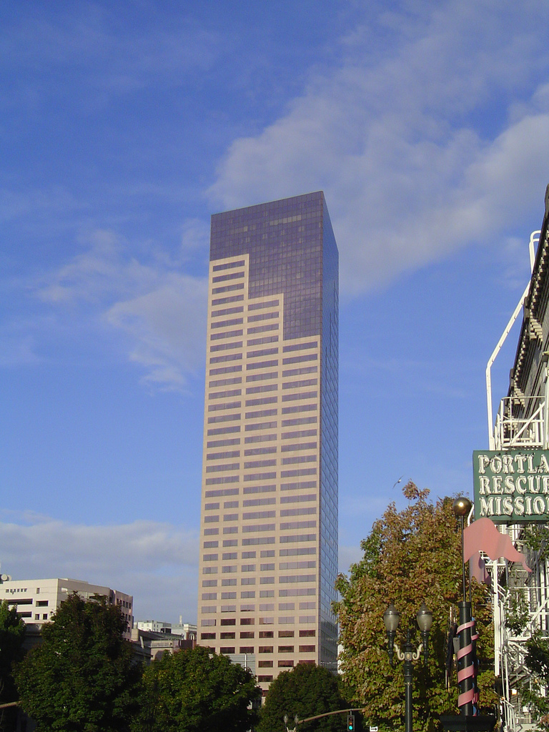 Bancorp Tower in Portland, Oregon